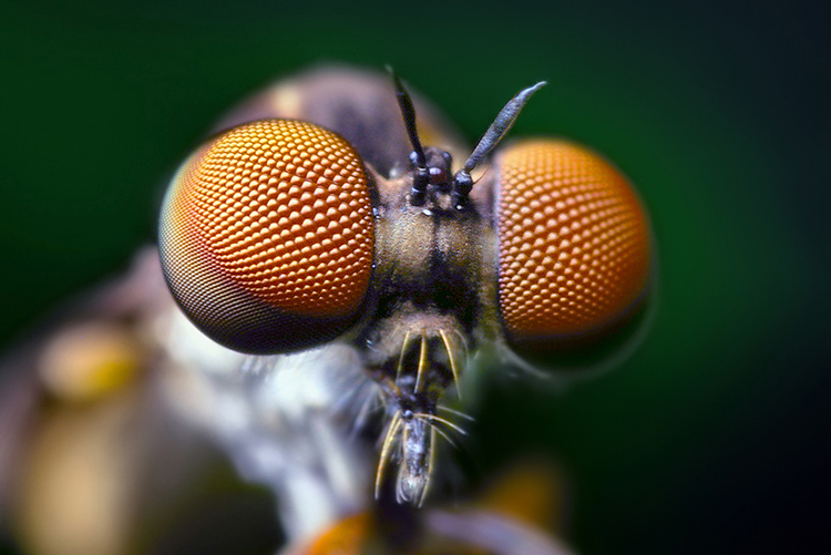 I'm going through all the photos I took this last summer trying to find any overlooked shots. The weather has turned quite cold here, and sadly, the bugs are largely gone. So I'll probably have to resort to pulling older photos out of my archives instead of posting new stuff for a while. Hopefully I will get a chance to return to astrophotography during these cold winter months until the bugs return. Despite this species of robber fly's small size (~5mm), it has some absolutely amazing compound eyes. (If you want to learn more about compound eyes, here is the Wikipedia page on ommatidium, featuring a photo I took of a horsefly's eyes).